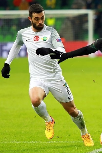 FC Krasnodar vs. Akhisar Belediyespor, 29 November 2018